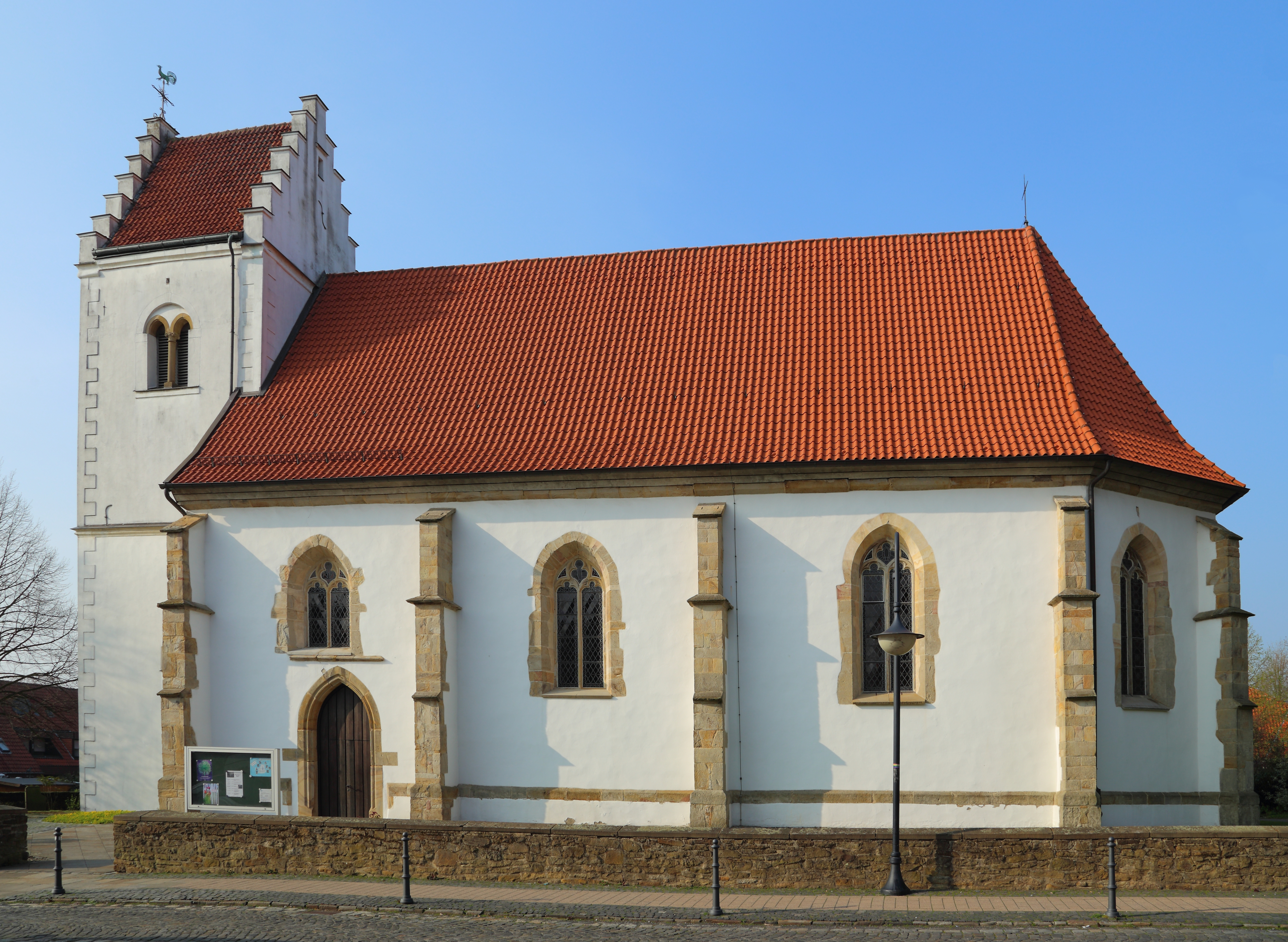 Protestant church of Mettingen, Kreis Steinfurt, North Rhine-Westphalia, Germany.